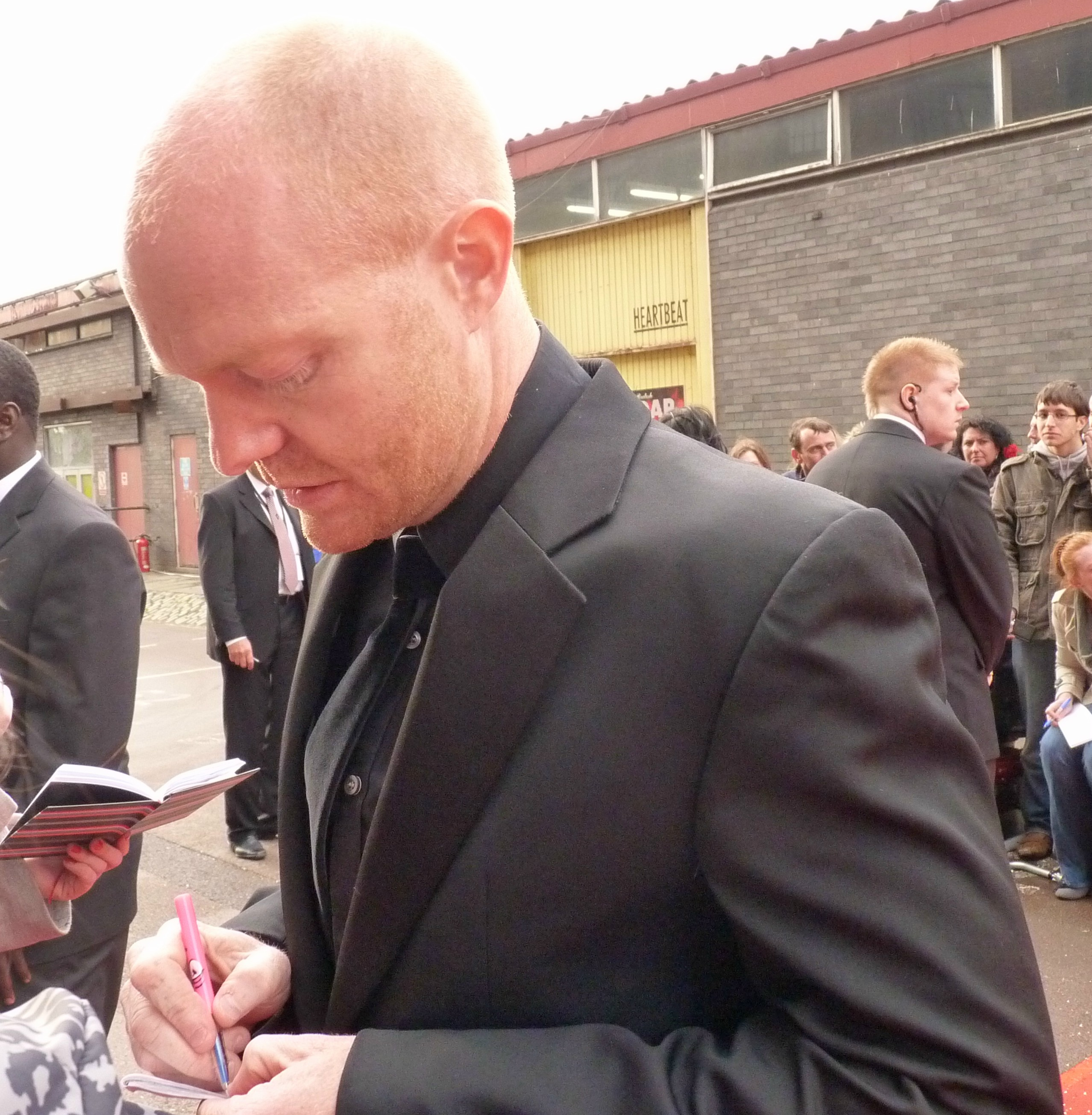 EastEnders actor Jake Wood at the British Soap Awards 2011.